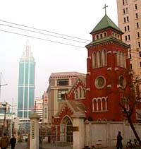 Yuguang Street Church, alias Dalian Anglican Church